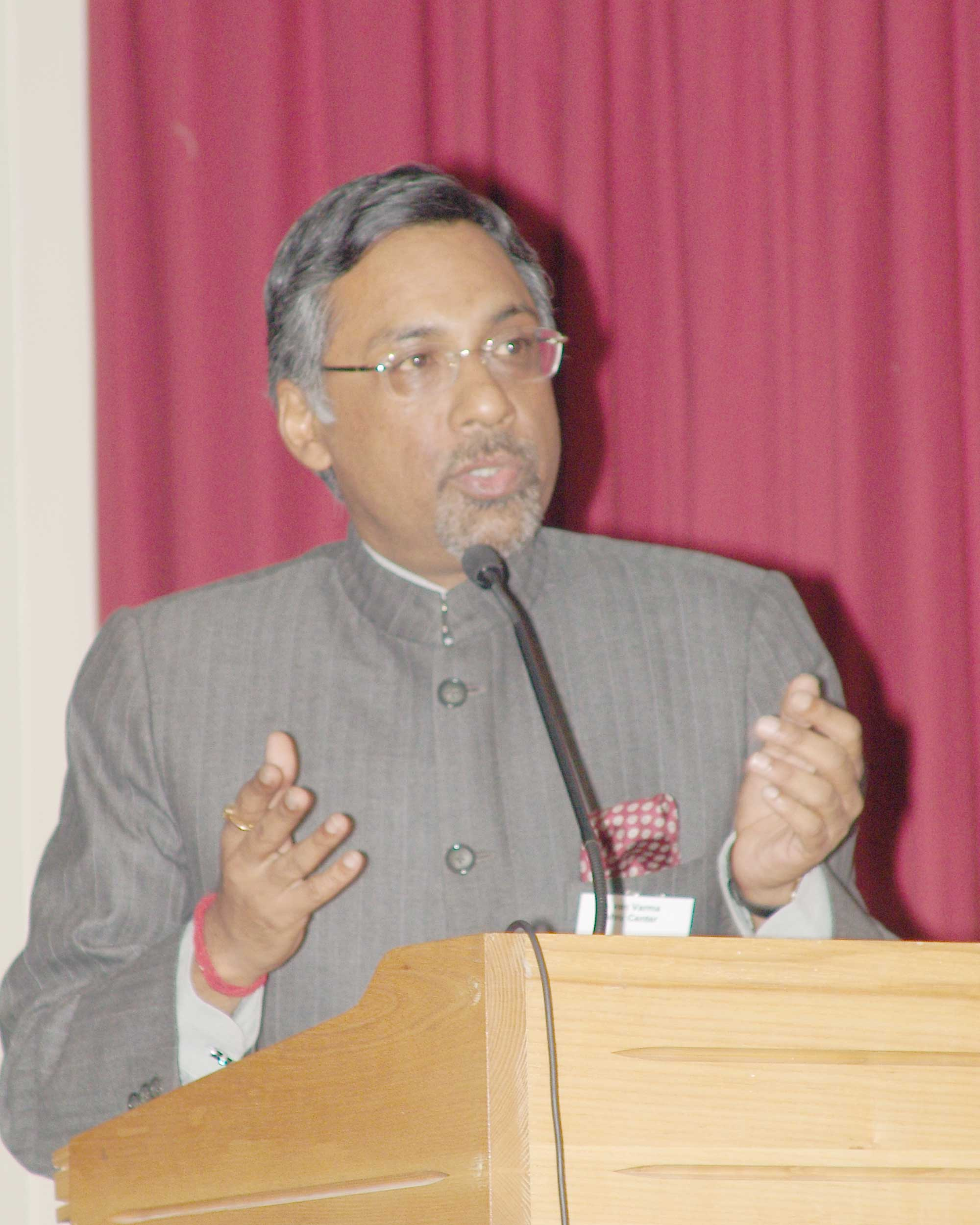 Pavan Varma speaking at a book launch in Nehru Centre, London, March 23, 2005. The Nehru Centre is the cultural wing of the Indian High Commission.